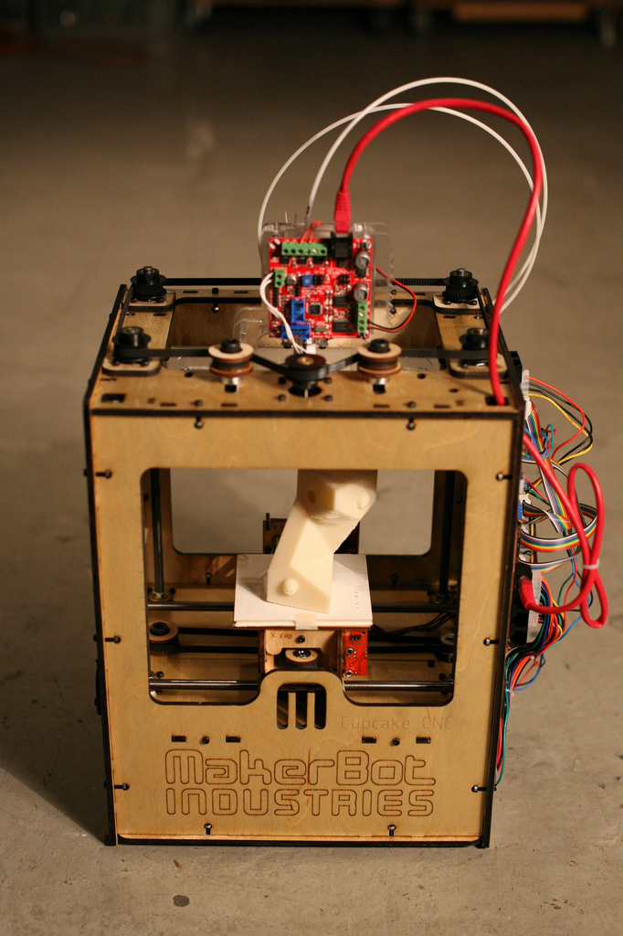 The MakerBot Cupcake CNC - description from the Flickr image page, below